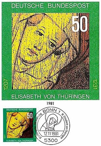 German stamp of Elisabeth von Thüringen